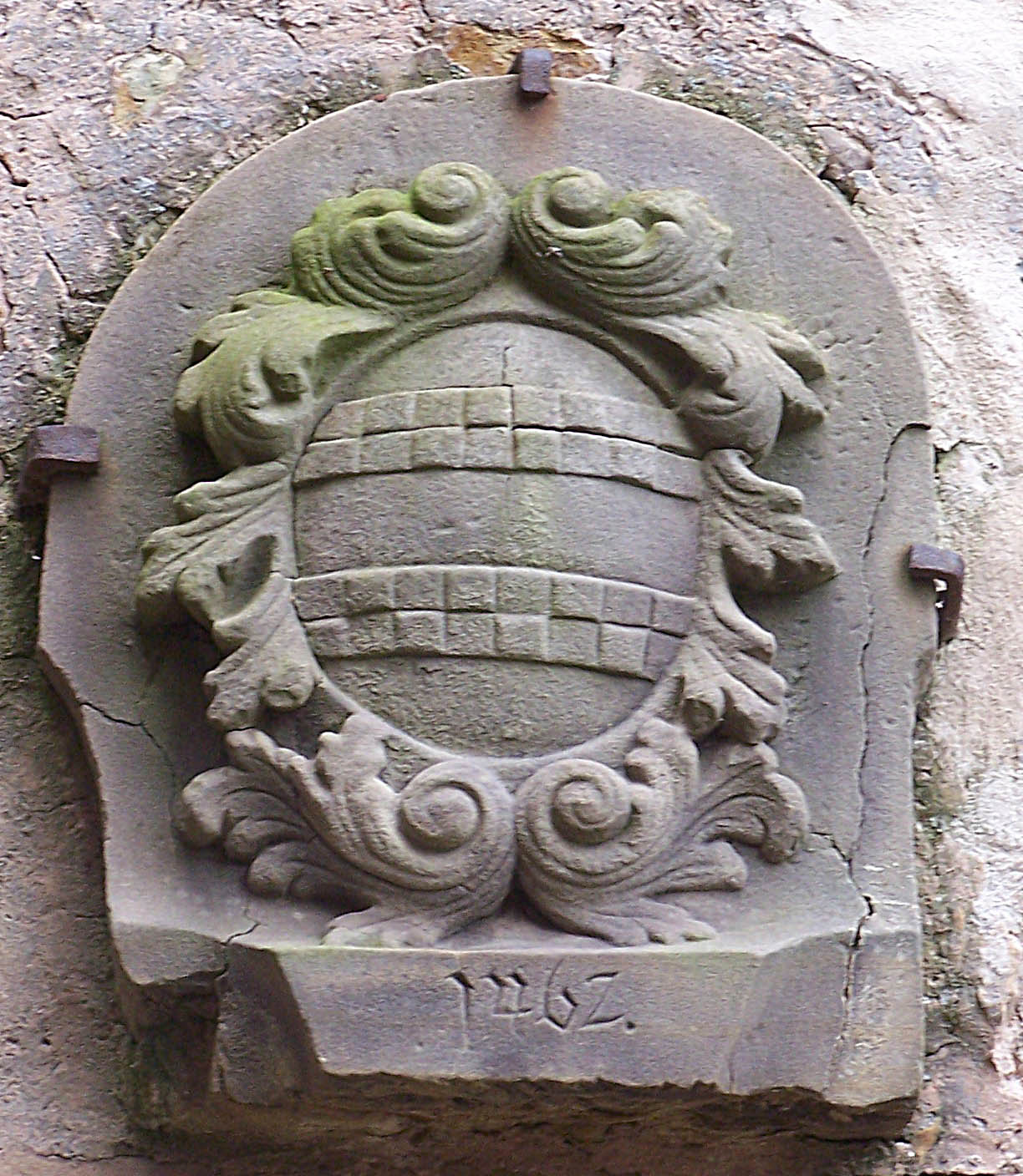 Truchseß von Wetzhausen coat of arms in the courtyard of Brennhausen castle.